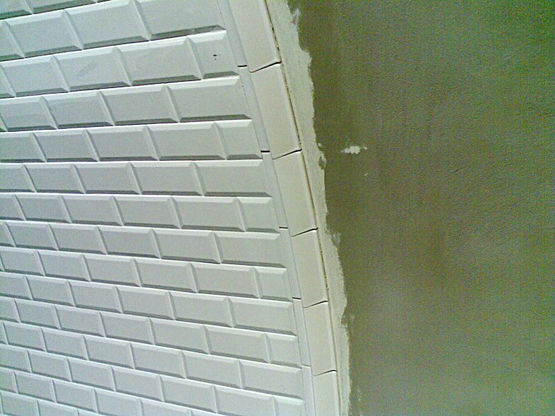 Train hall of Paris Métro with renovation of tiling in Bruno Gaudin classical 1900 style.